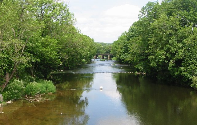 The River Taw at Umberleigh. Taken from the Road Bridge. The Bridge in the distance carries the railway line.